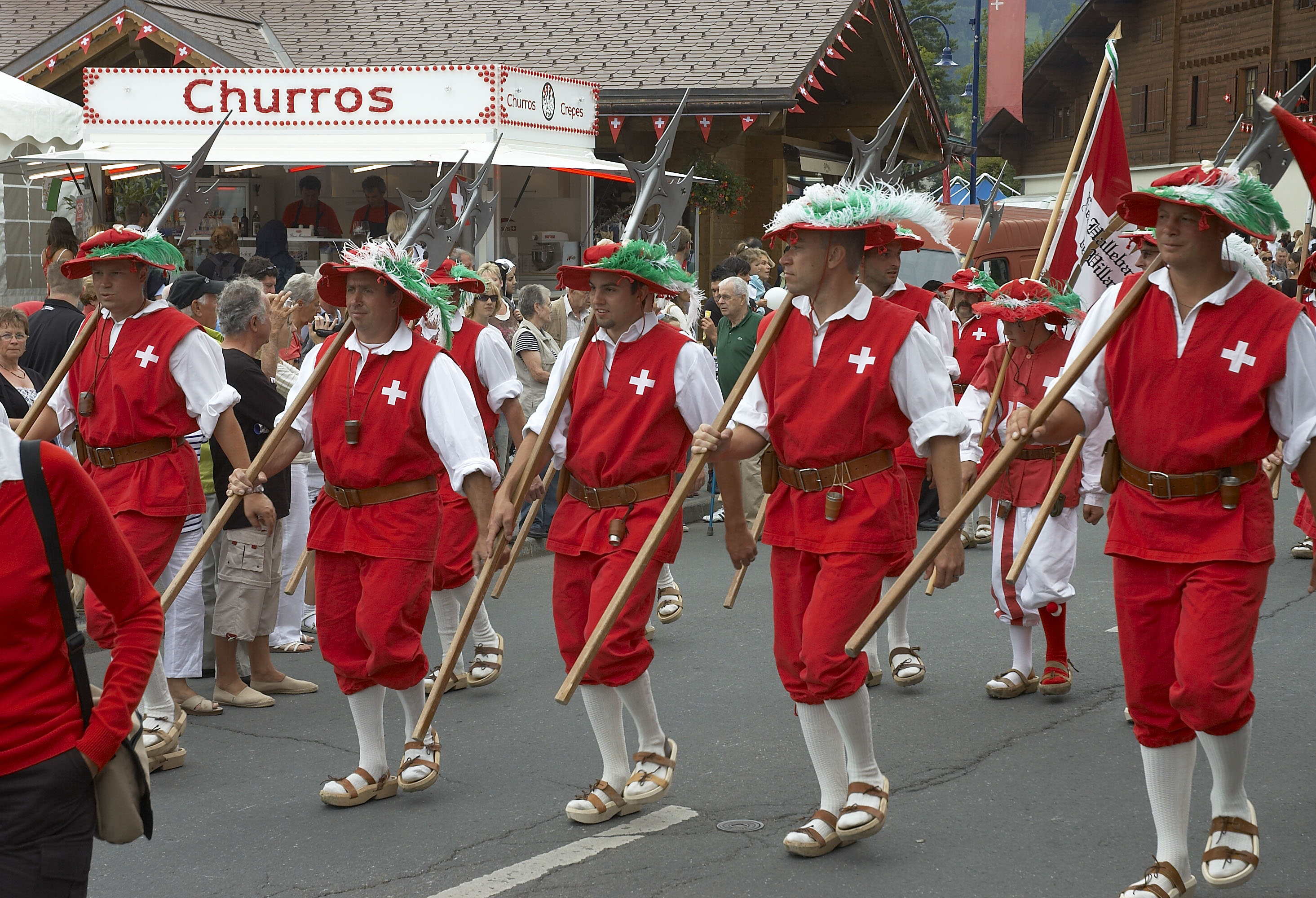 Festivities in Villars-sur-Ollon on August 1 the National Day of Switzerland